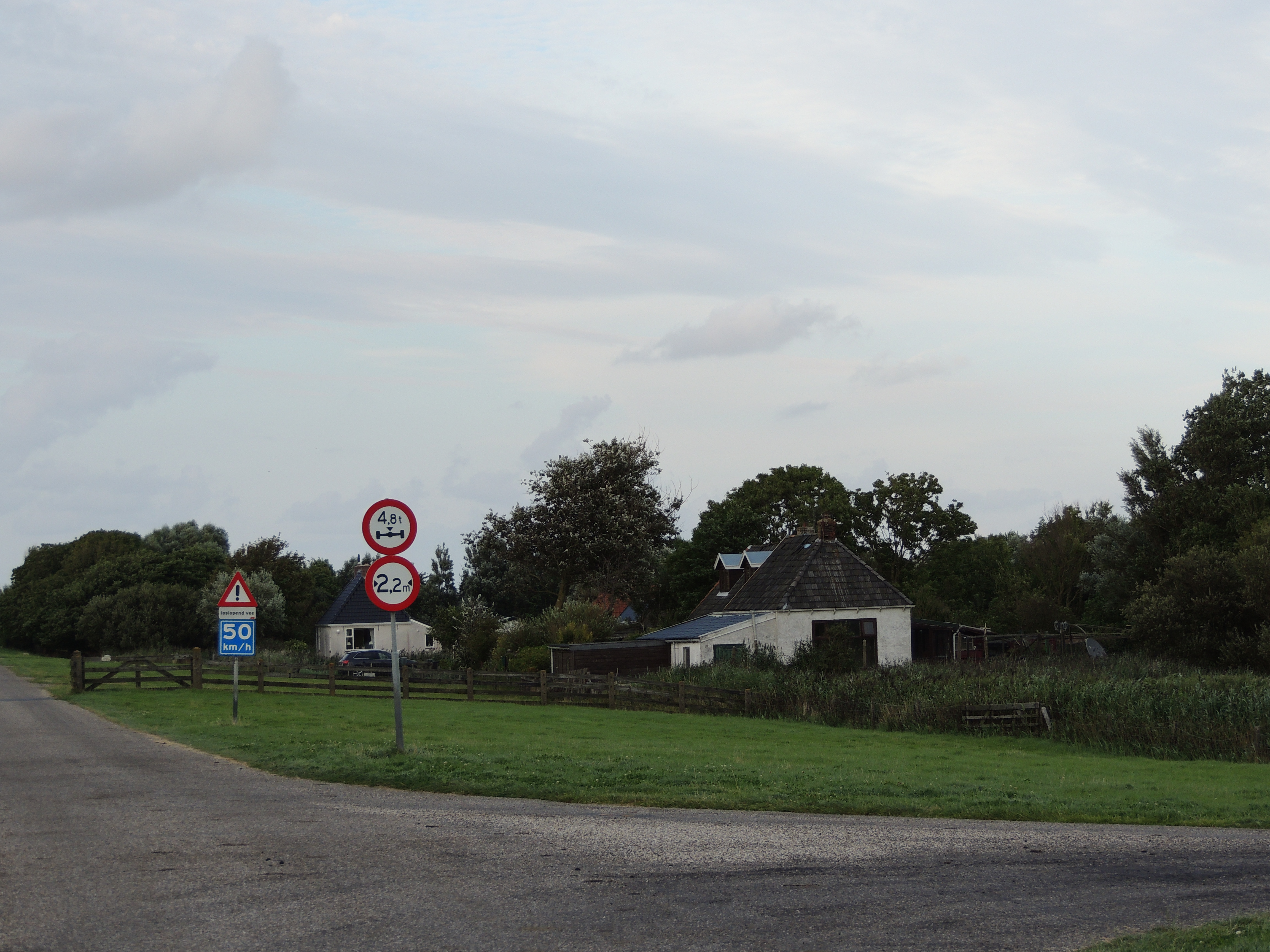 koehool